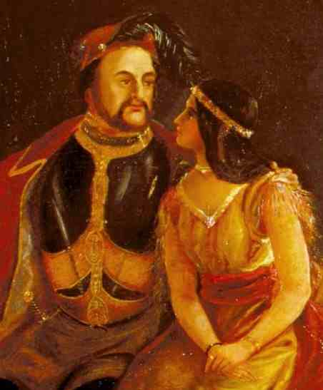 Pocahontas and John Rolfe portrait.